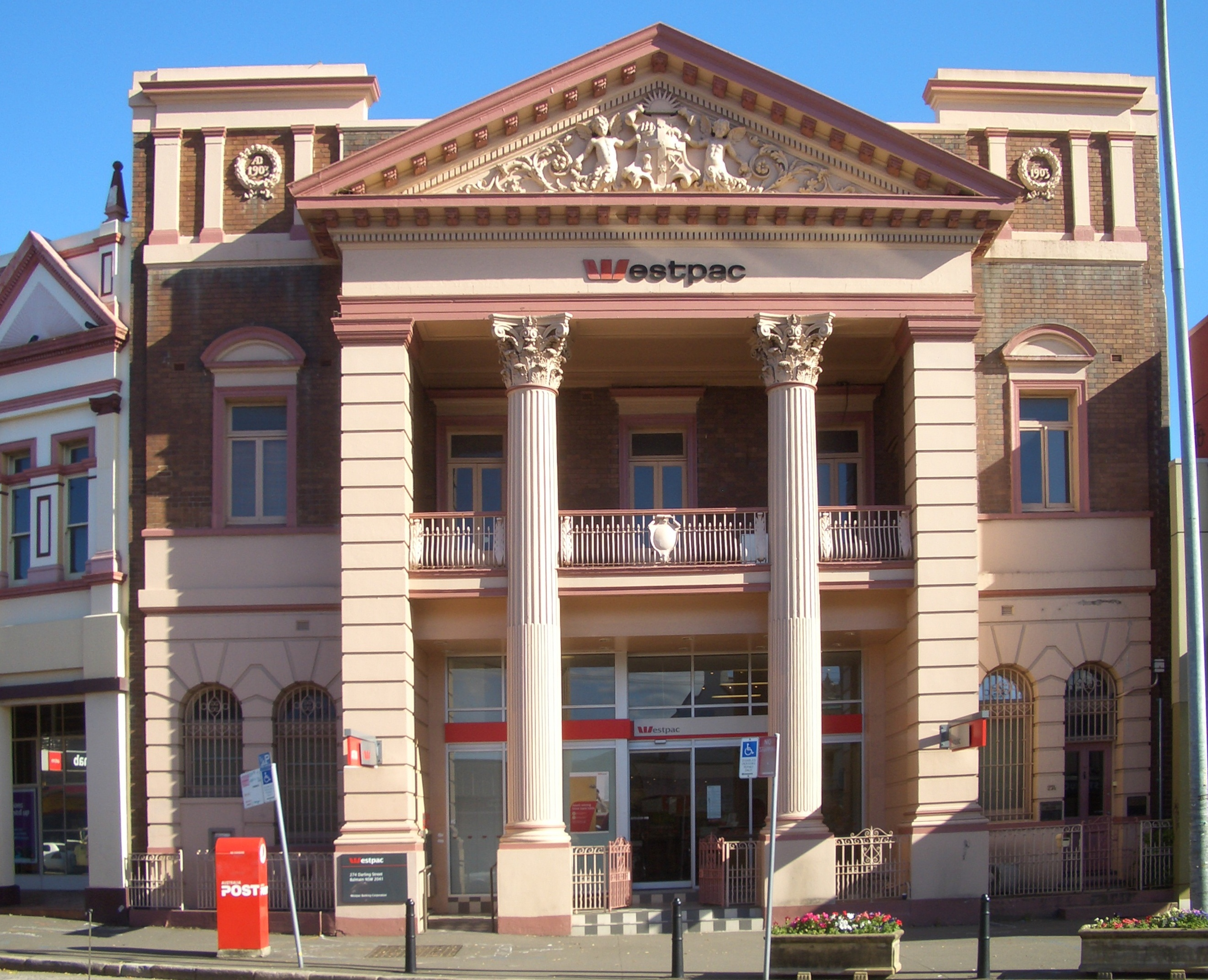 Balmain, historic Westpac bank, Darling Street